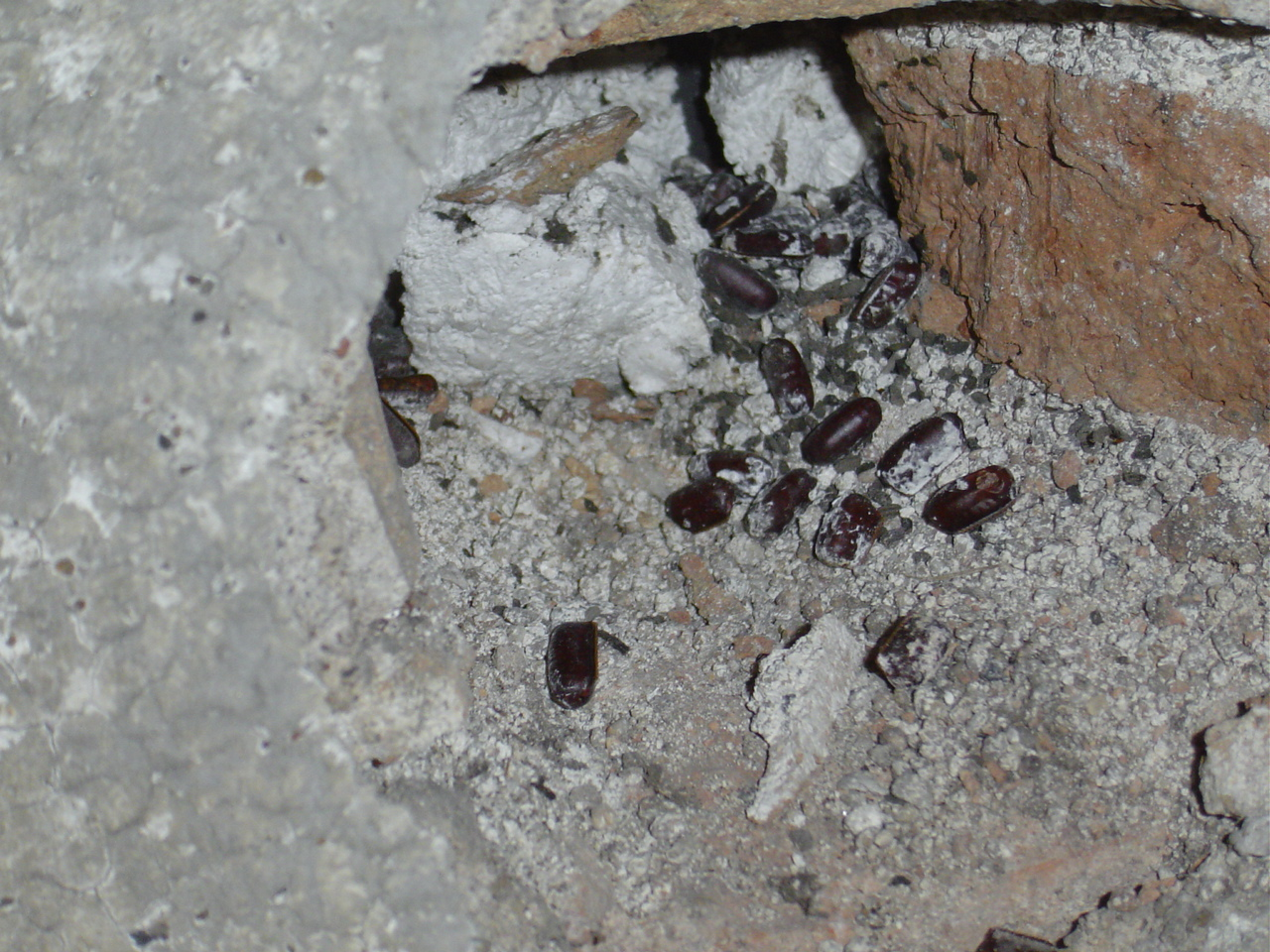 Blatta orientalis ootecas